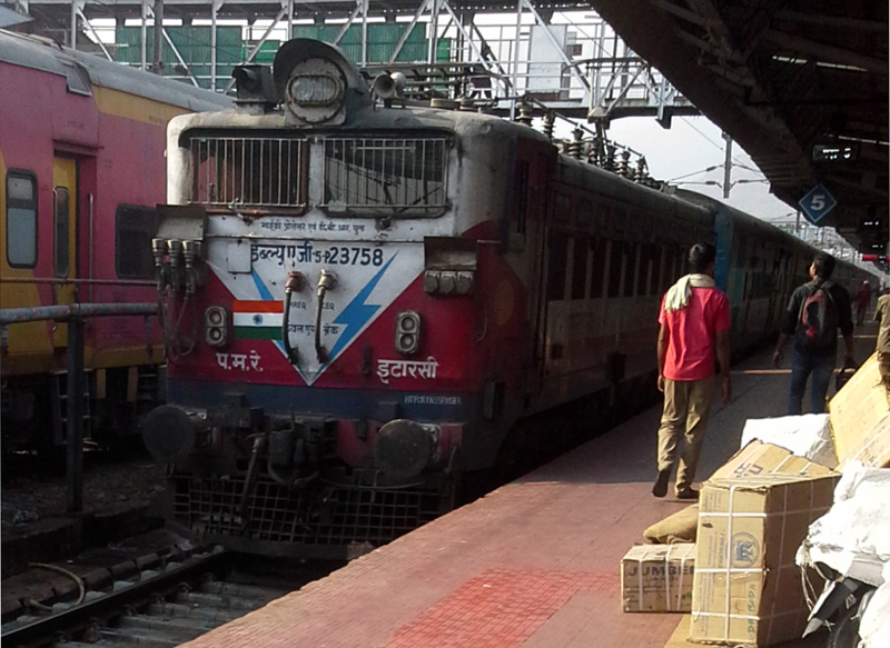 23758 Itarsi based WAG5 locomotive brings in Villupuram train at Visakhapatnam railway station